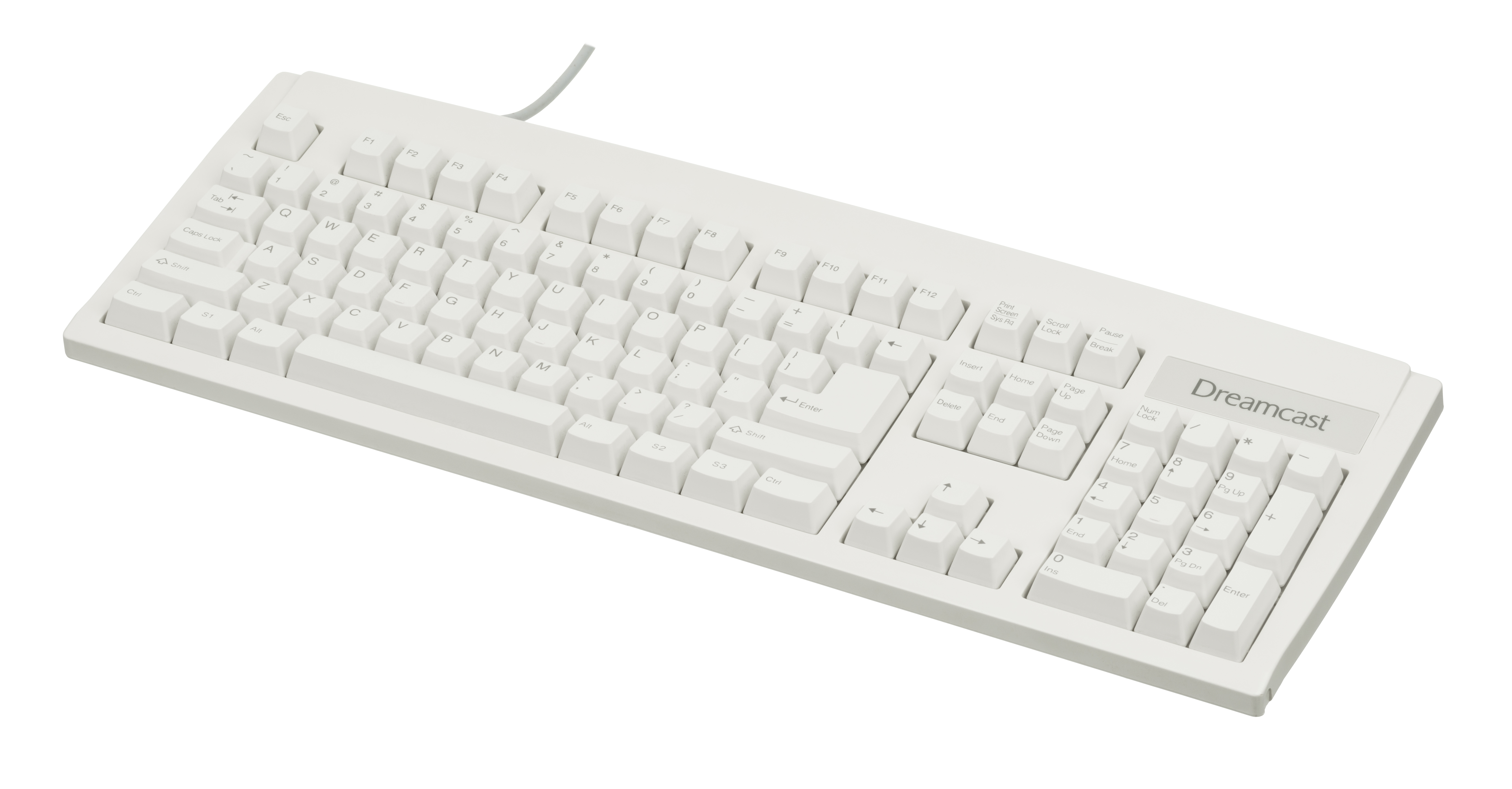 A keyboard for the North American Sega Dreamcast. It was mainly used for web browsing but could also be used in games like Typing of the Dead.